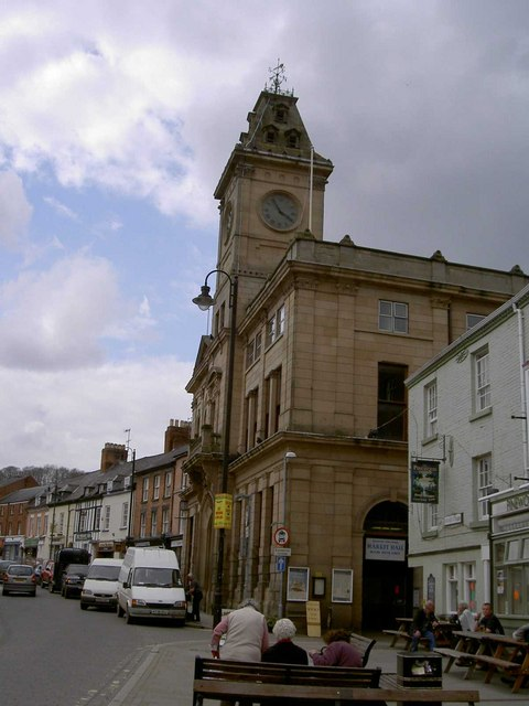 Town Hall, Welshpool